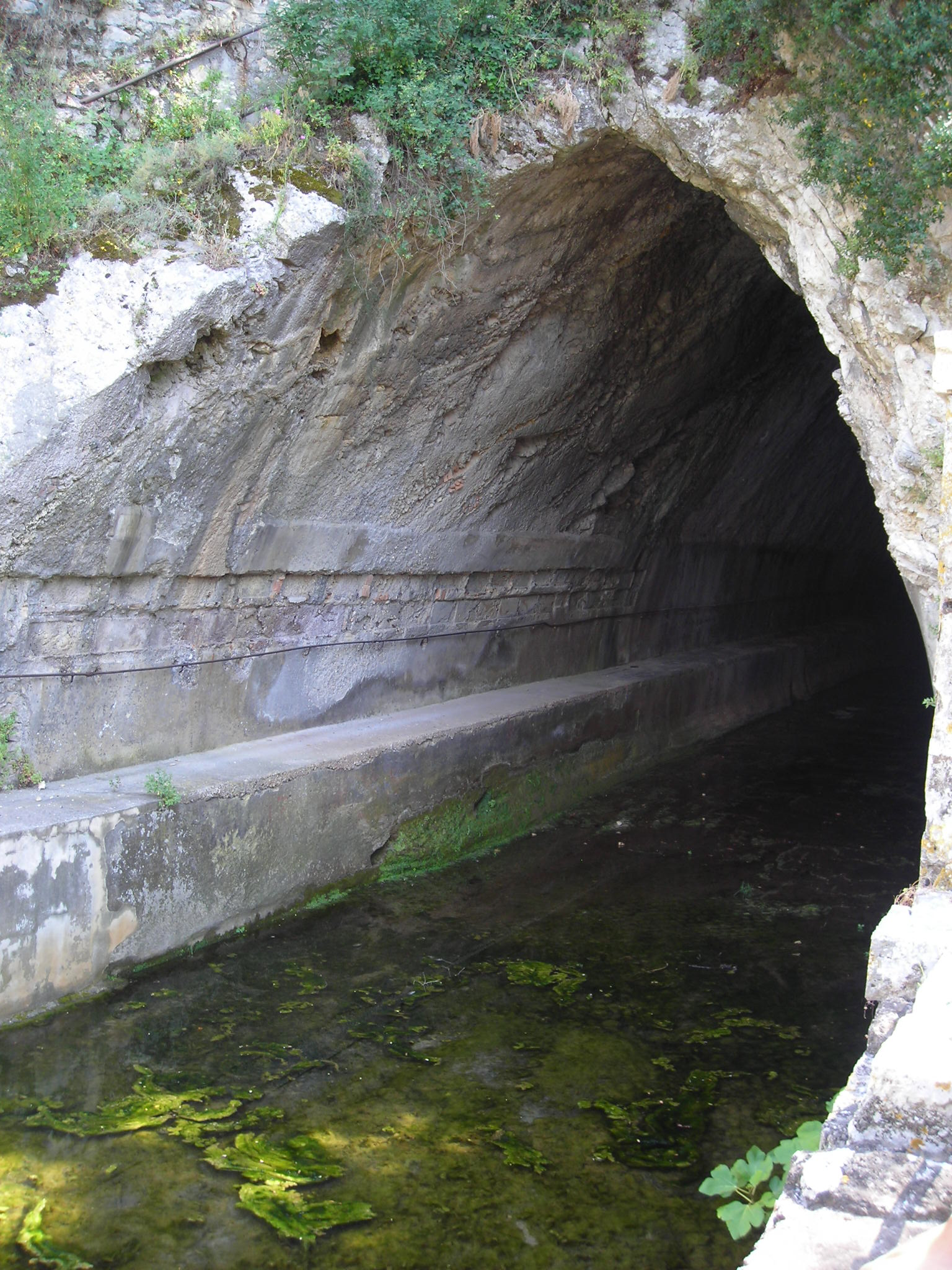 View of the traforo, the shunt of the Aniene river in Tivoli